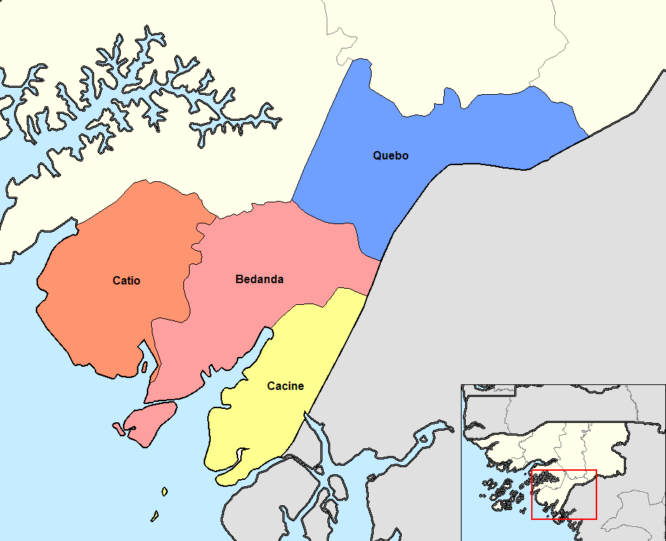 Map of the sectors of Tombali region of Guinea-Bissau. Created by Rarelibra 14:52, 14 September 2006 (UTC) for public domain use, using MapInfo Professional v8.5 and various mapping resources.